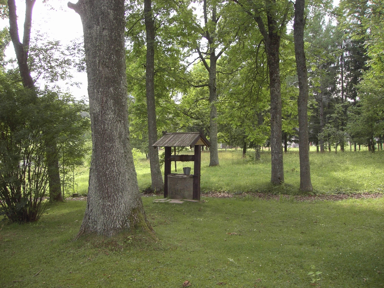 Village Rojus, Ignalina district, Lithuania